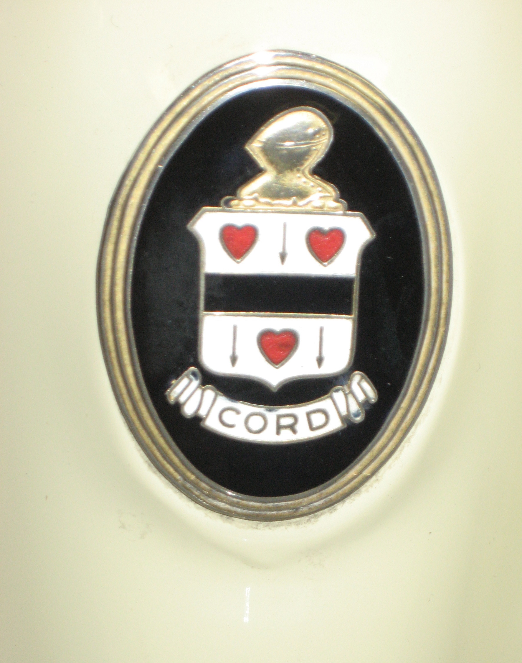 Crest on front hood of 1936 Cord 810 Convertable Phaeton on display at Tallahassee Automobile Museum.